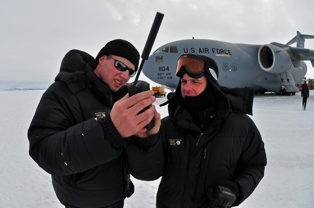 Capt. Rob Selmer, 97th Airlift Squadron, and Tech. Sgt. Quentin Nemechek, 446th Aircraft Maintenance Squadron, review satellite iridium phone operations at Pegasus Field, Antarctica, during an Operation Deep Freeze mission.